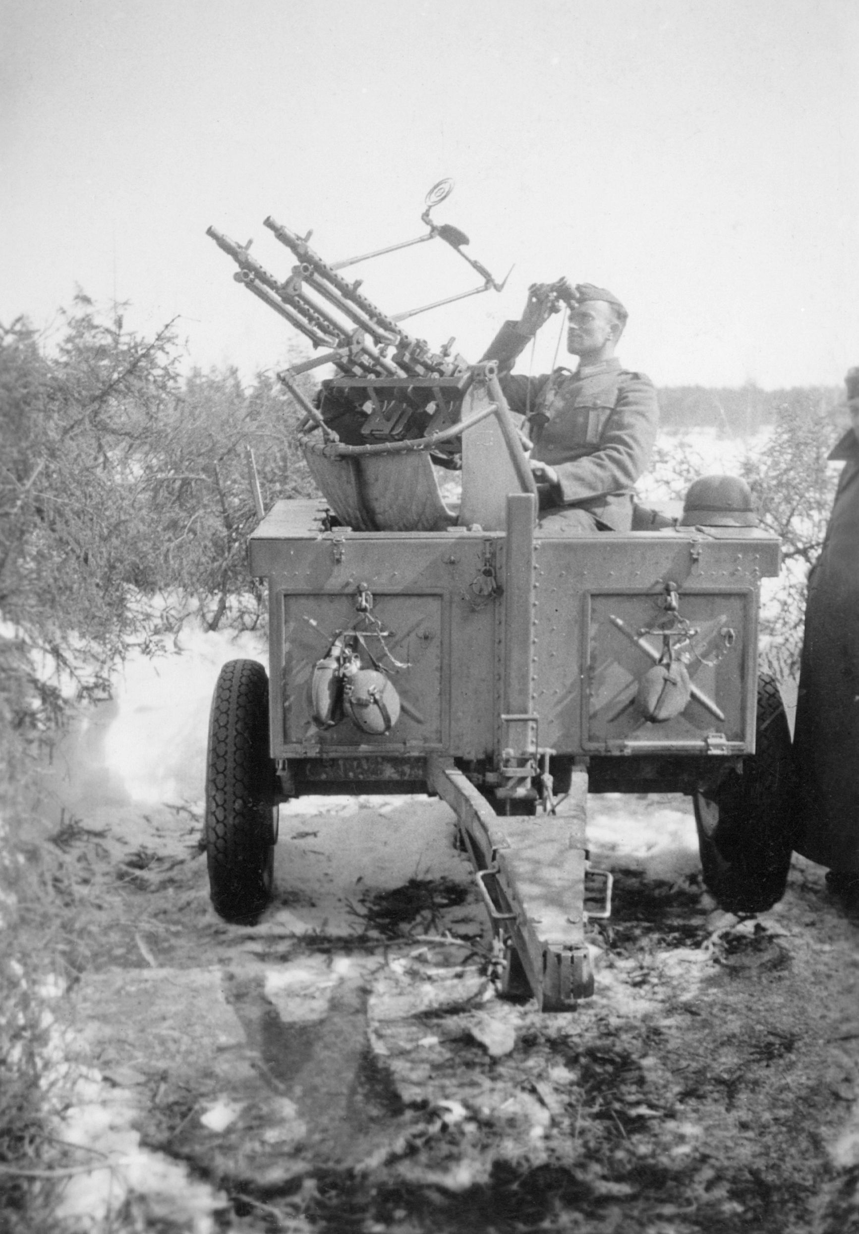 The exact date and place is unknown. Picture was taken by my grandfather.